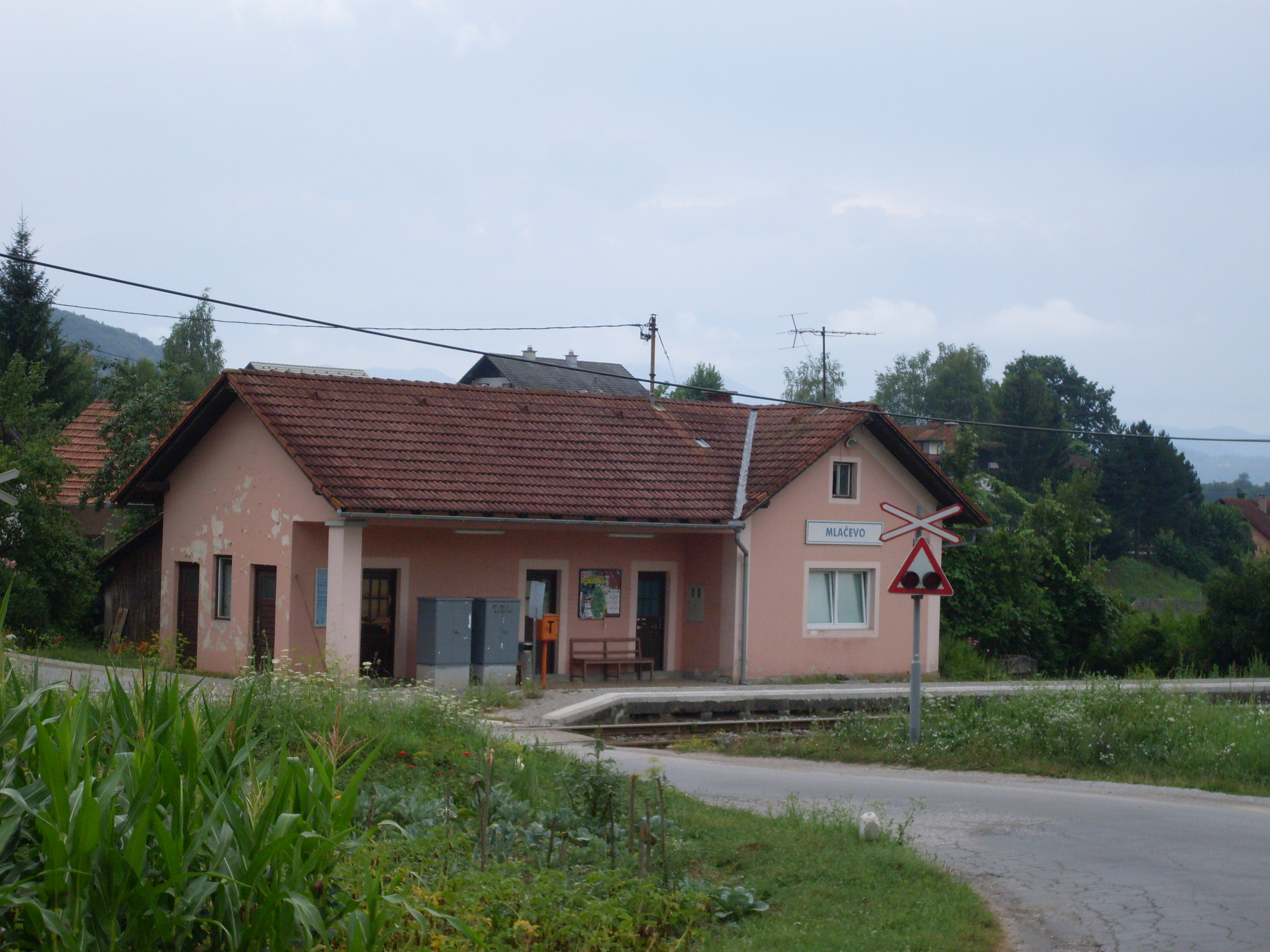 Railway halt Mlačevo in Veliko Mlačevo, Slovenia